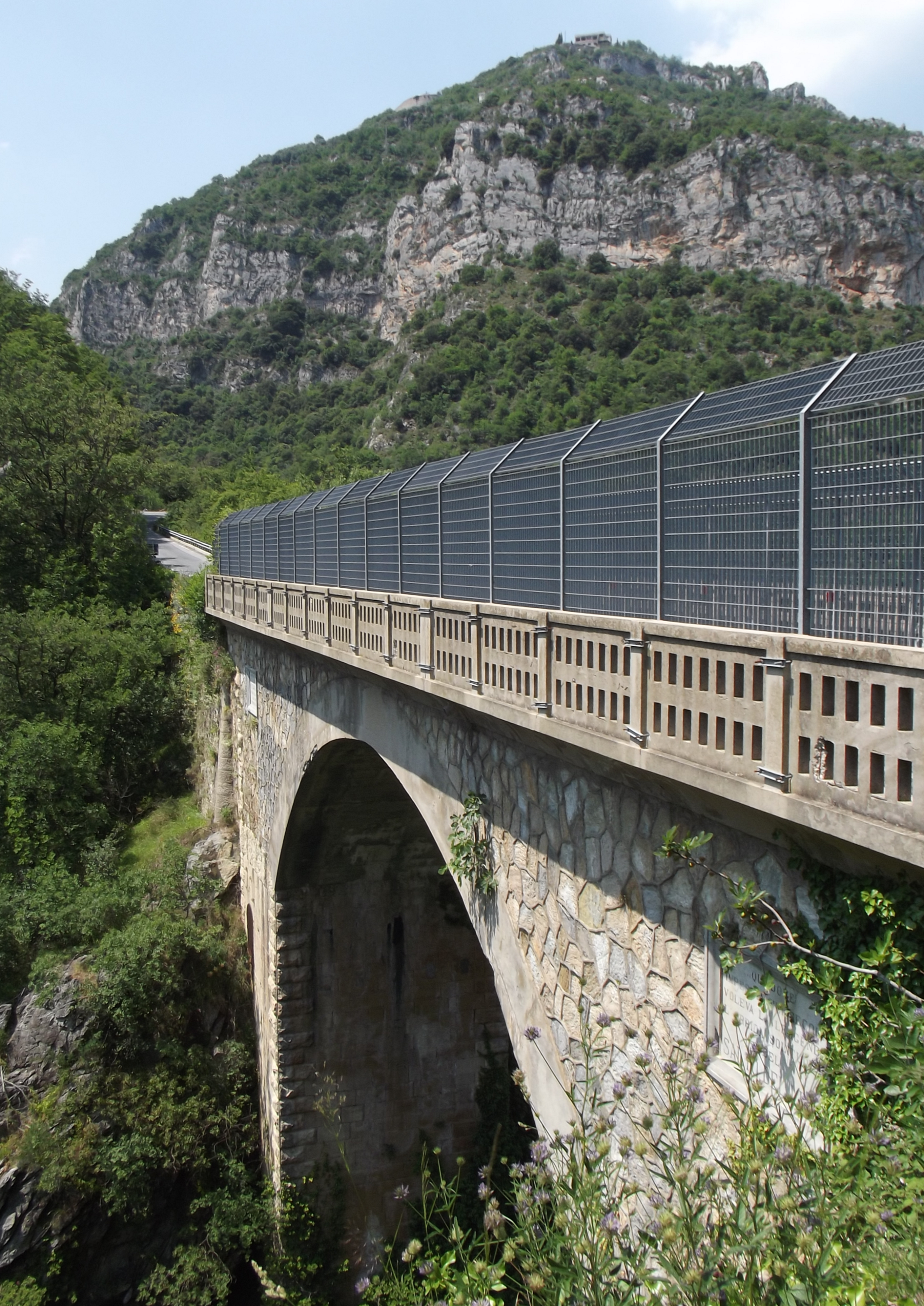 Torrente Varatella: bridge of the provincial road n.60 dir (SV, Italy)